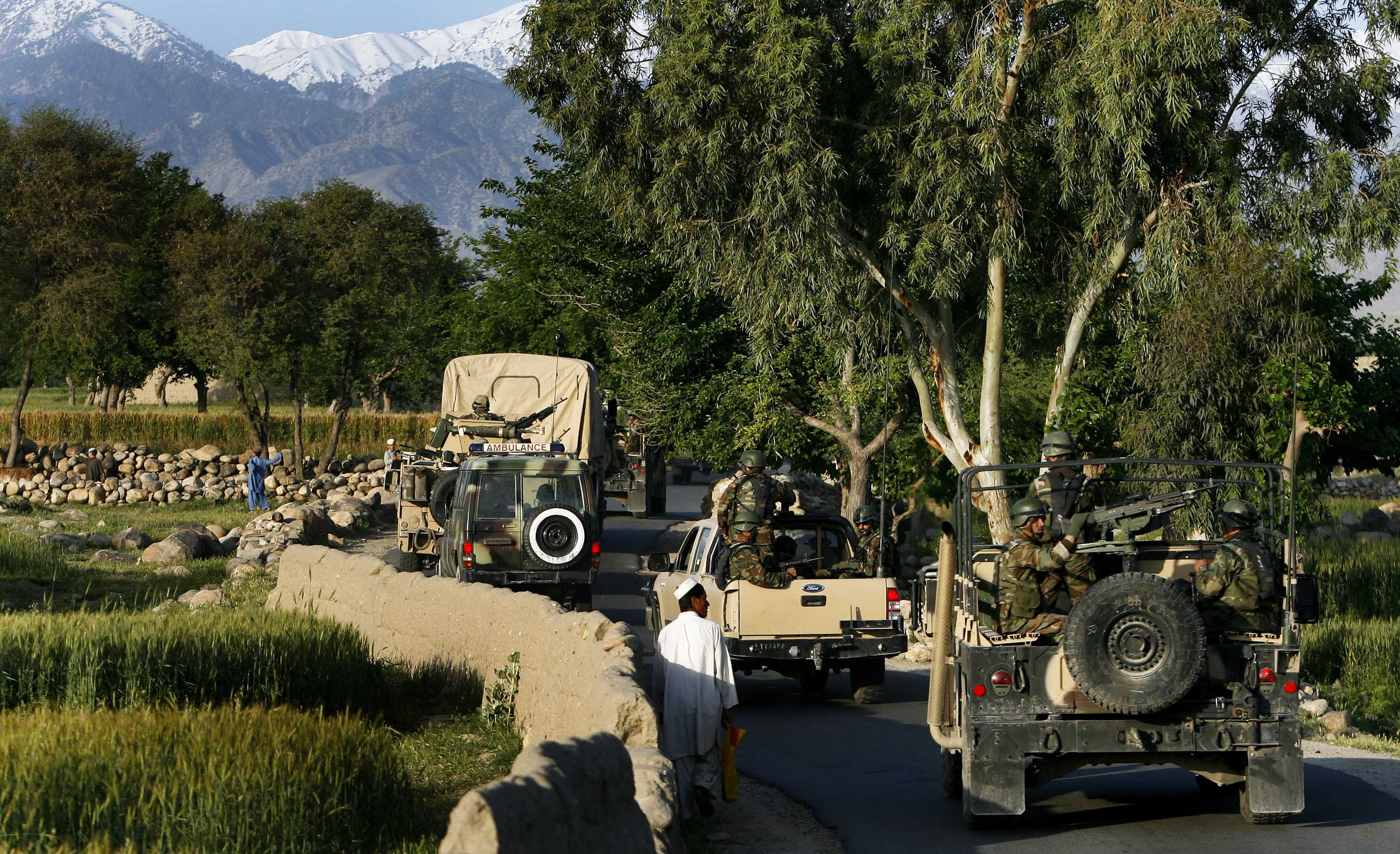 Afghan National Army Commandos of the 201st Corps, assisted by members of the Combined Joint Special Operations Task Force-Afghanistan, conduct a security patrol through Achin District, Nangarhar province, April 30. (CJSOTF-A photo by Army Staff Sgt. Russell Lee Klika)